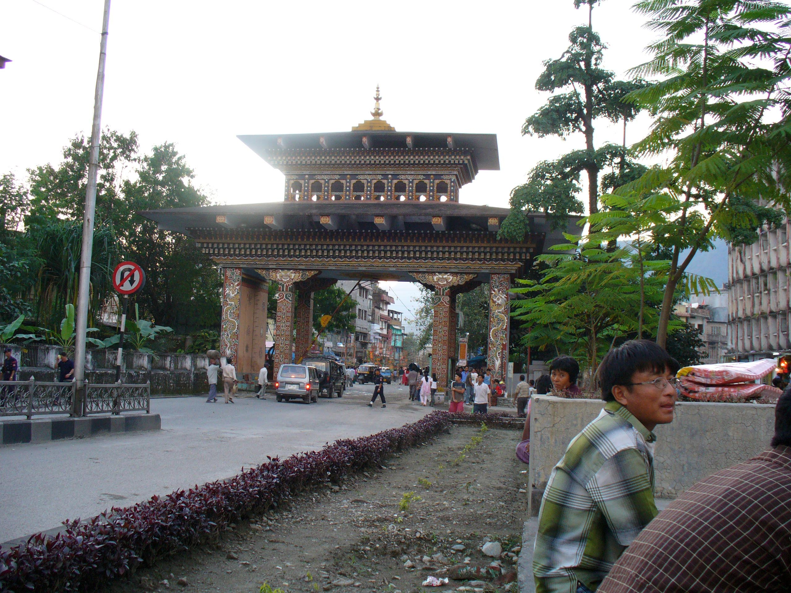 Border crossing between India and Bhutan seen from Phuntsholing on the bhutanese side